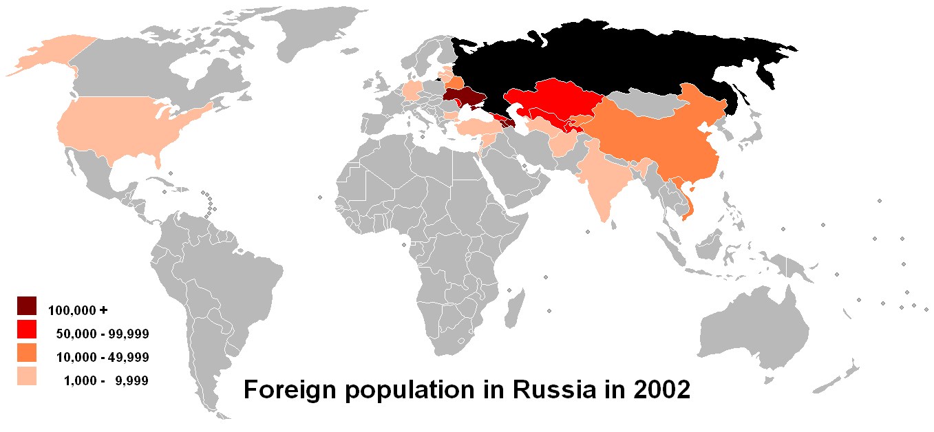 Foreign population resident of Russia in 2002.